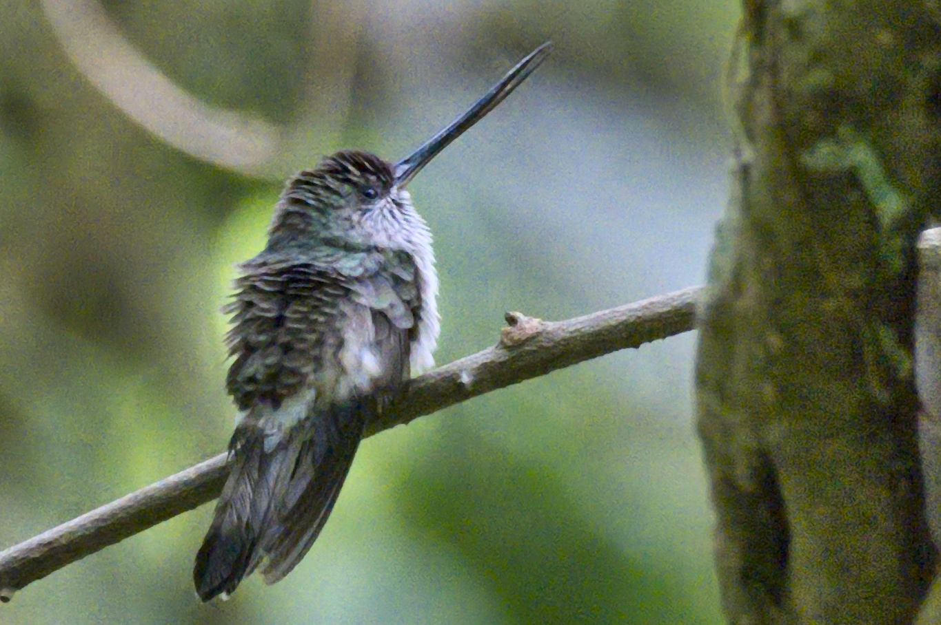 Tooth-billed Hummingbird perched at Anchicaya Valley, Colombia